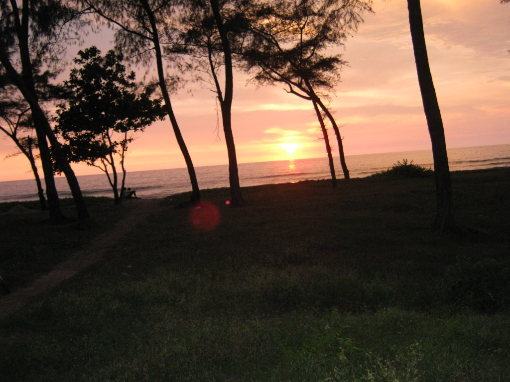 Kodi Beach Kundapura